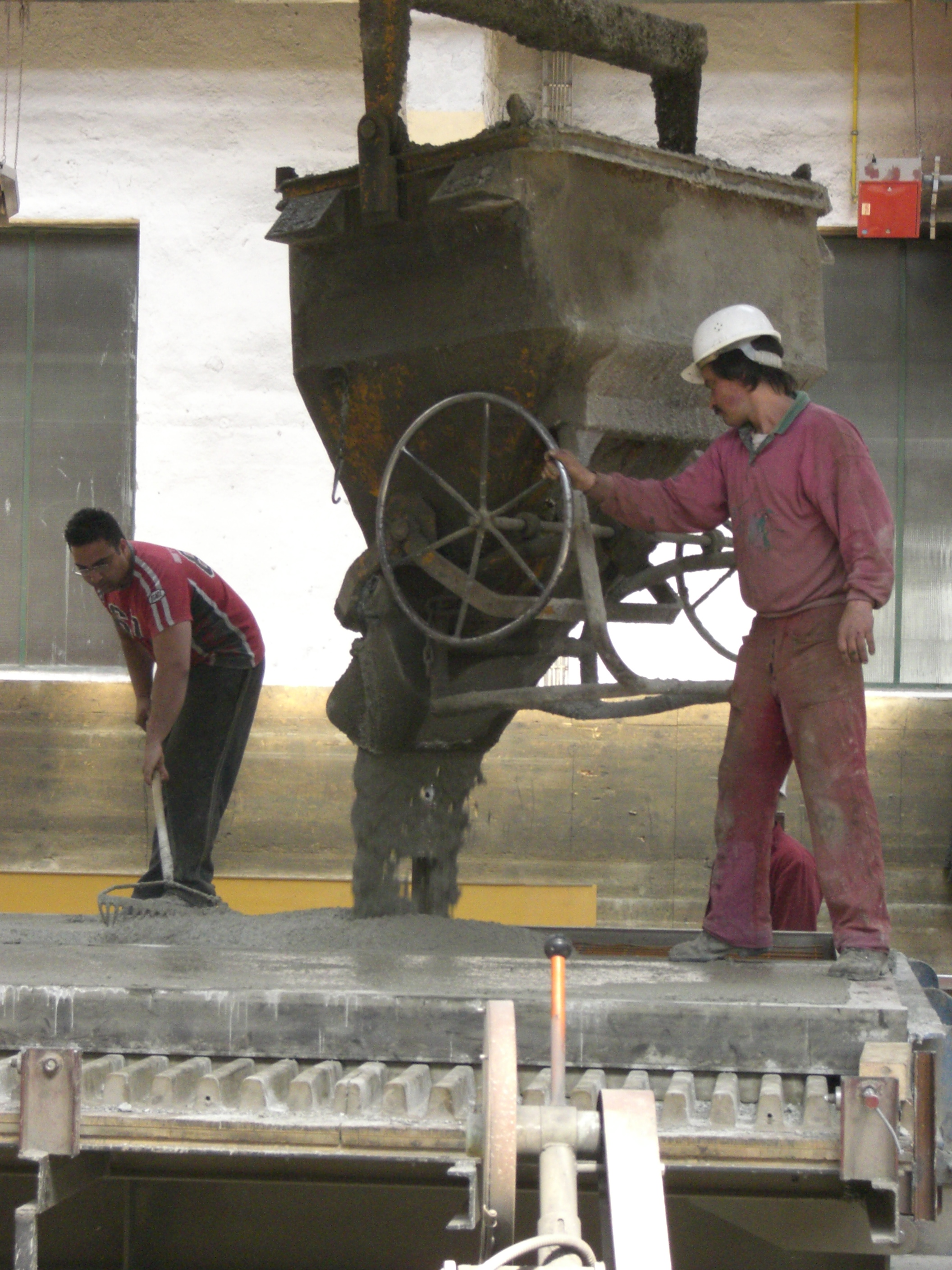 Concrete mixing plant, Czech Republic. Unloading of finished concrete in a mould.